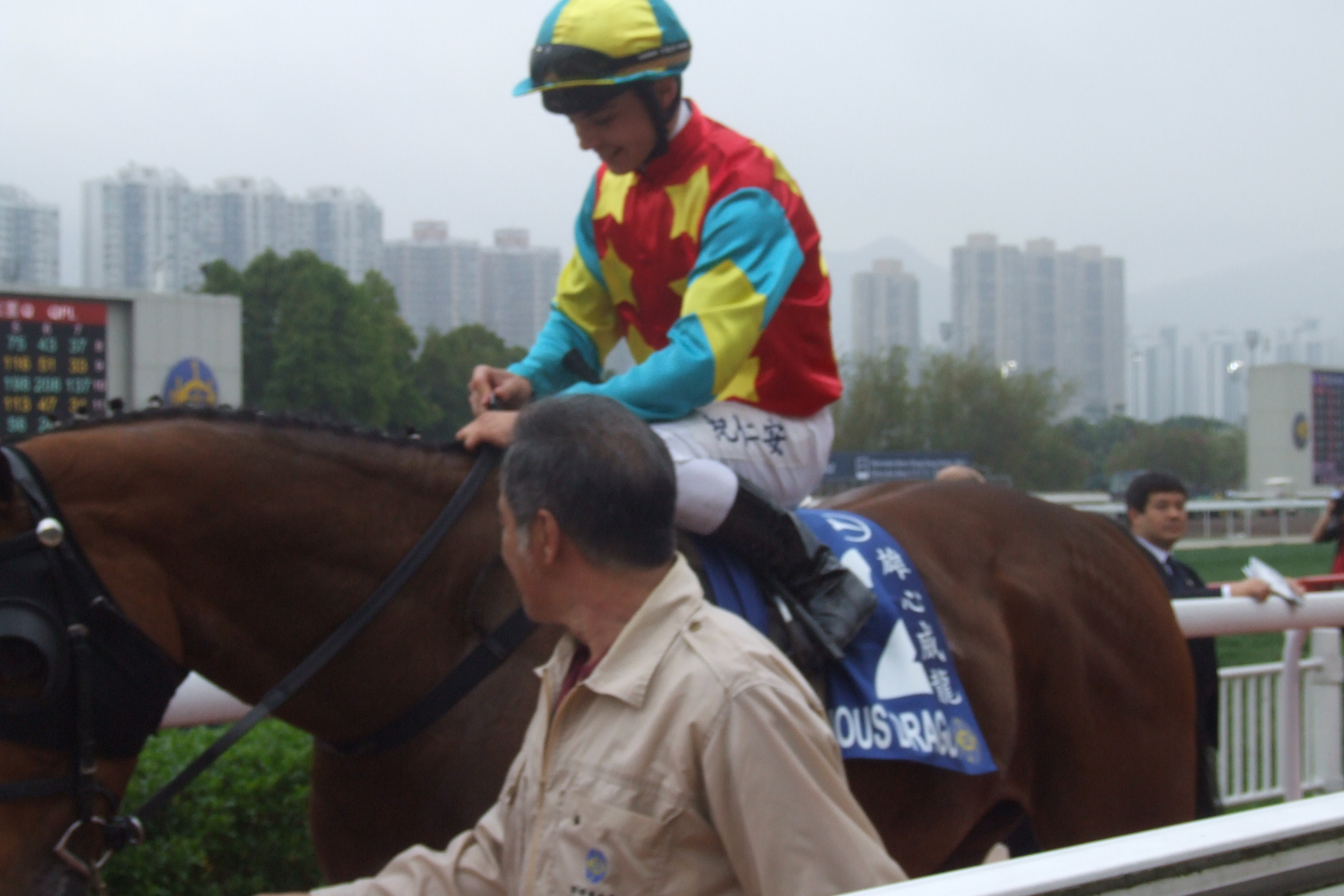 Ambitious Dragon 中文（香港）: 雄心威龍